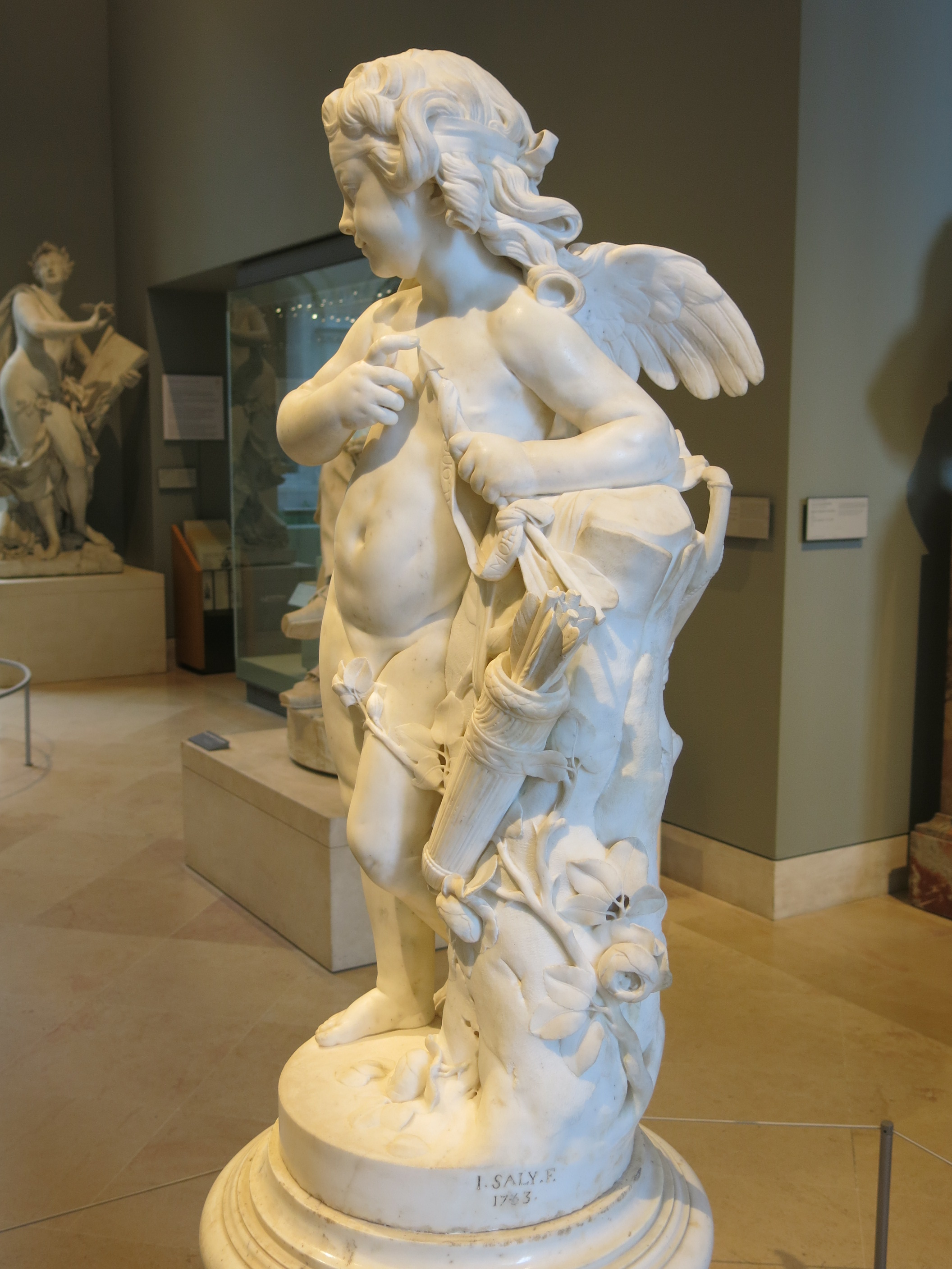 The Saly's Amour, or Amour trying one of his arrows is a sculpture purchased by the Louvre museum (Paris, France) in 2016